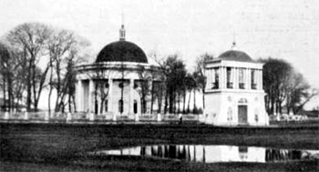 The church of the Razumovsky Residence in Yagotin